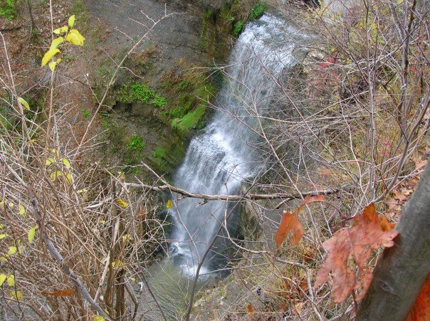 Buttermilk Falls, Hamilton, Canada